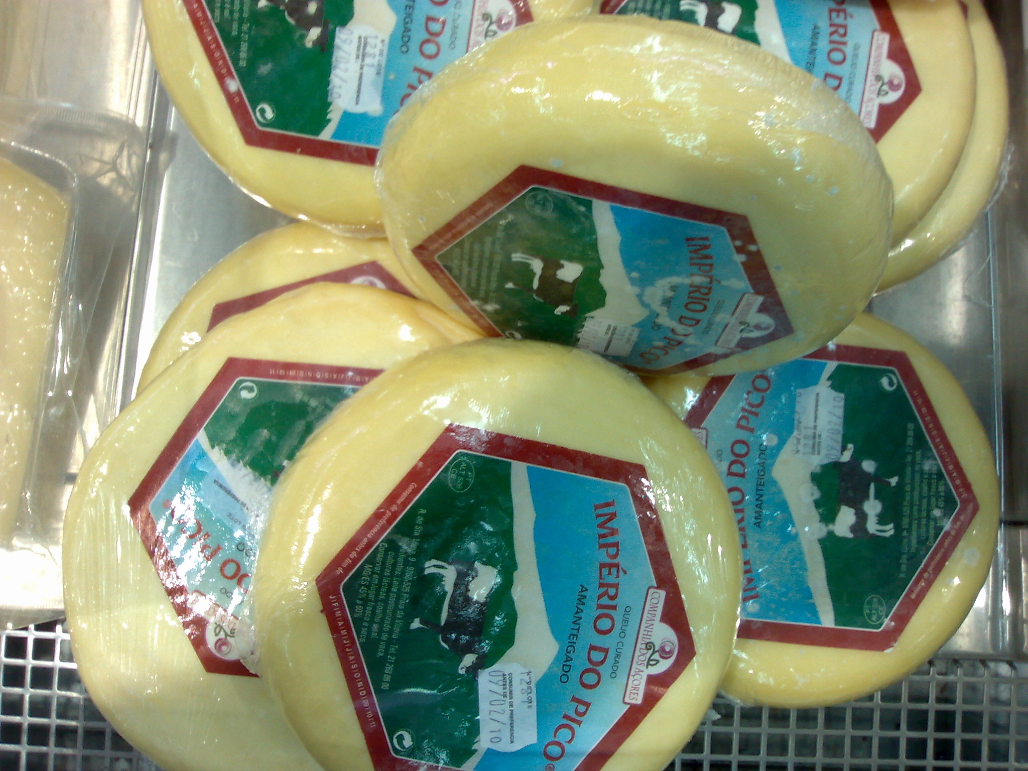 Queijo do Pico, a portuguese cheese from the Azores islands.